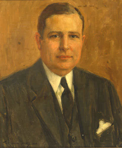 Official Portrait of David Sholtz (1891–1953), Twenty-sixth governor of Florida, January 4, 1933 to January 5, 1937. Oil on canvas, Frank Townsend Hutchens, 1934.